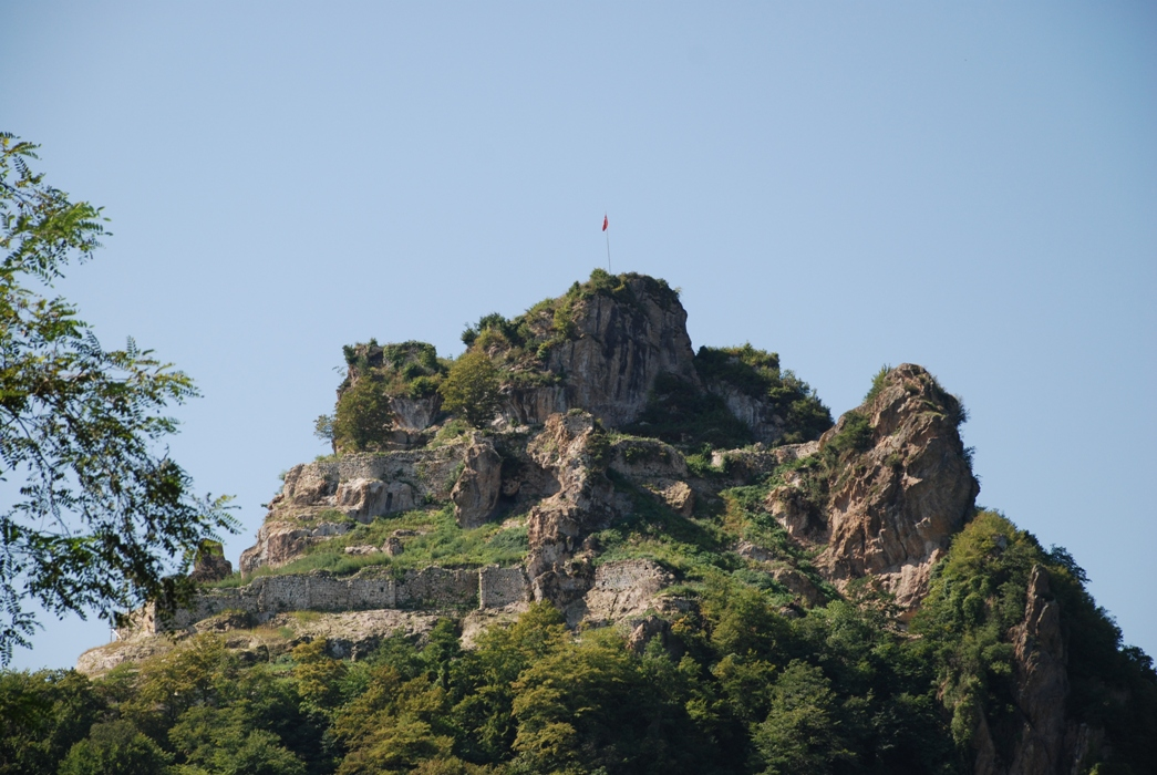 Ünye Castle